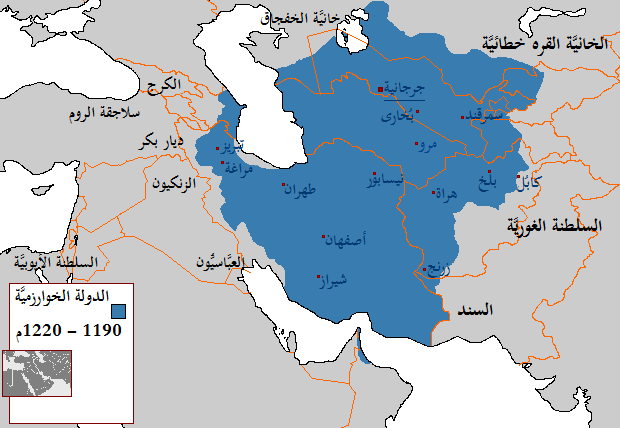 Khwarezmian_Empire_1190_-_1220_(AD).PNG